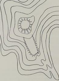 Geographical location of Castrum Cubul, north side view Gradac hill location